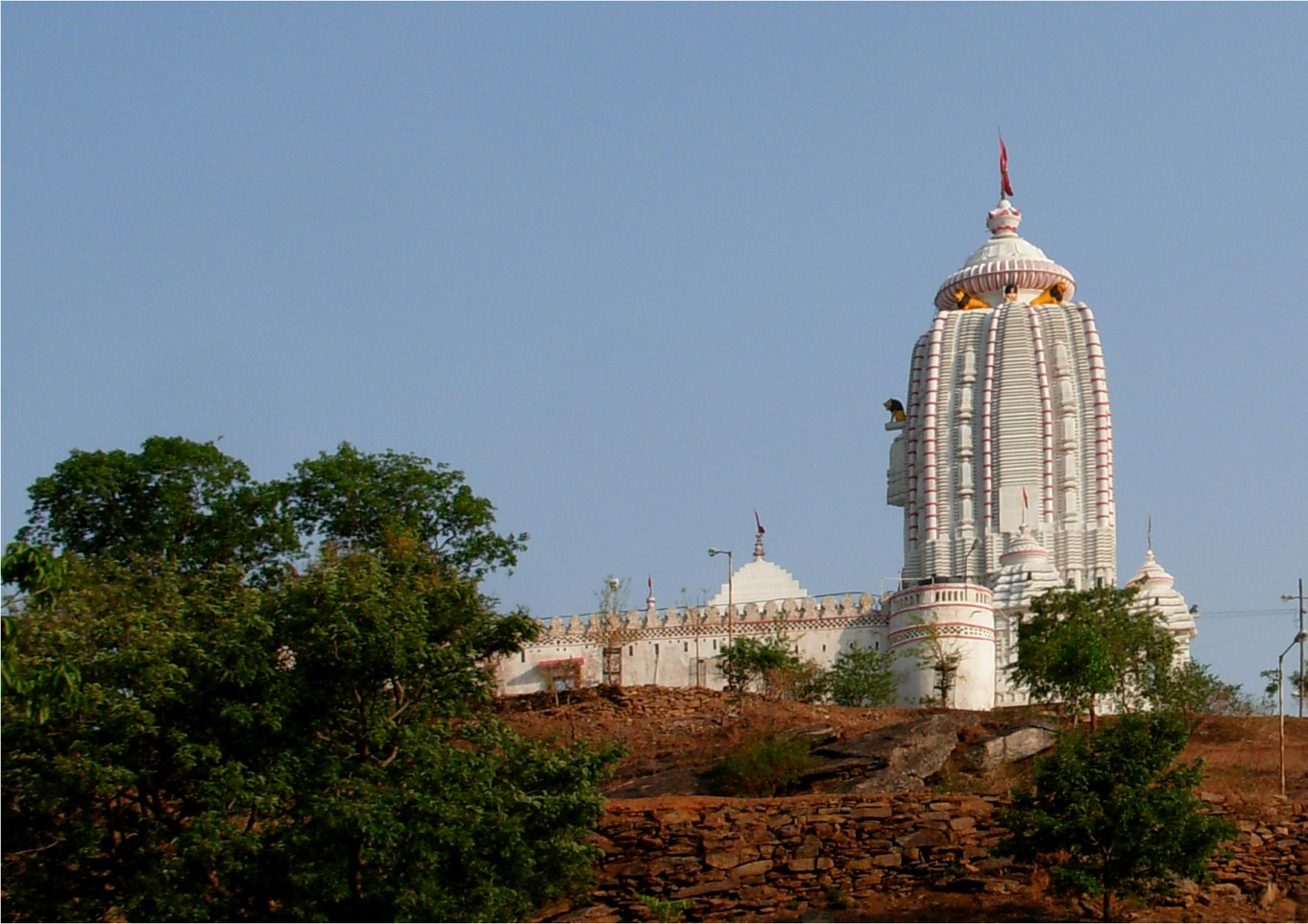 Jagannathpur Temple